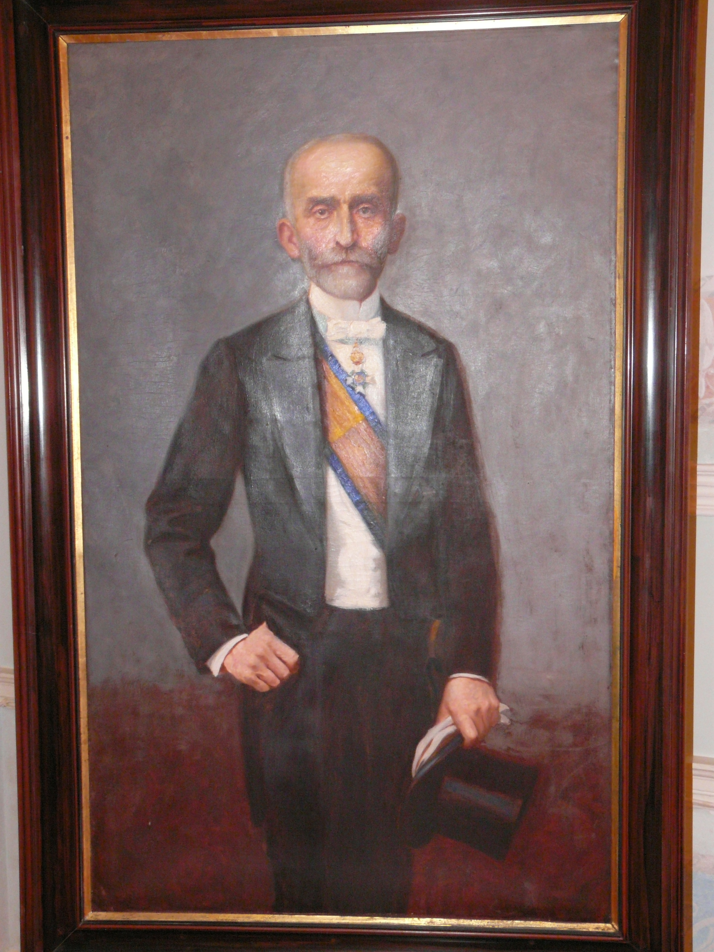 Gregorios Manos (1850-1928), ambassador of Greece in Vienna from 1890 to 1910. His donation of his collections to the Hellenic State is the basis of the creation of the Museum of Asian art of Corfu in 1927.